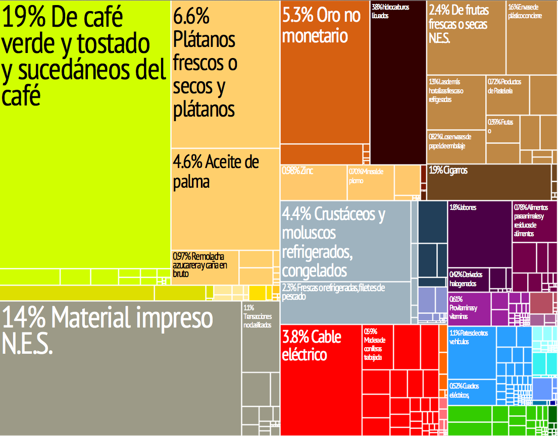 Representación gráfica de los productos de exportación del país en 28 categorías codificadas por color. Cada recuadro de color representa un producto y su tamaño es proporcional a la participación que ese producto representa dentro del total de las exportaciones del país.